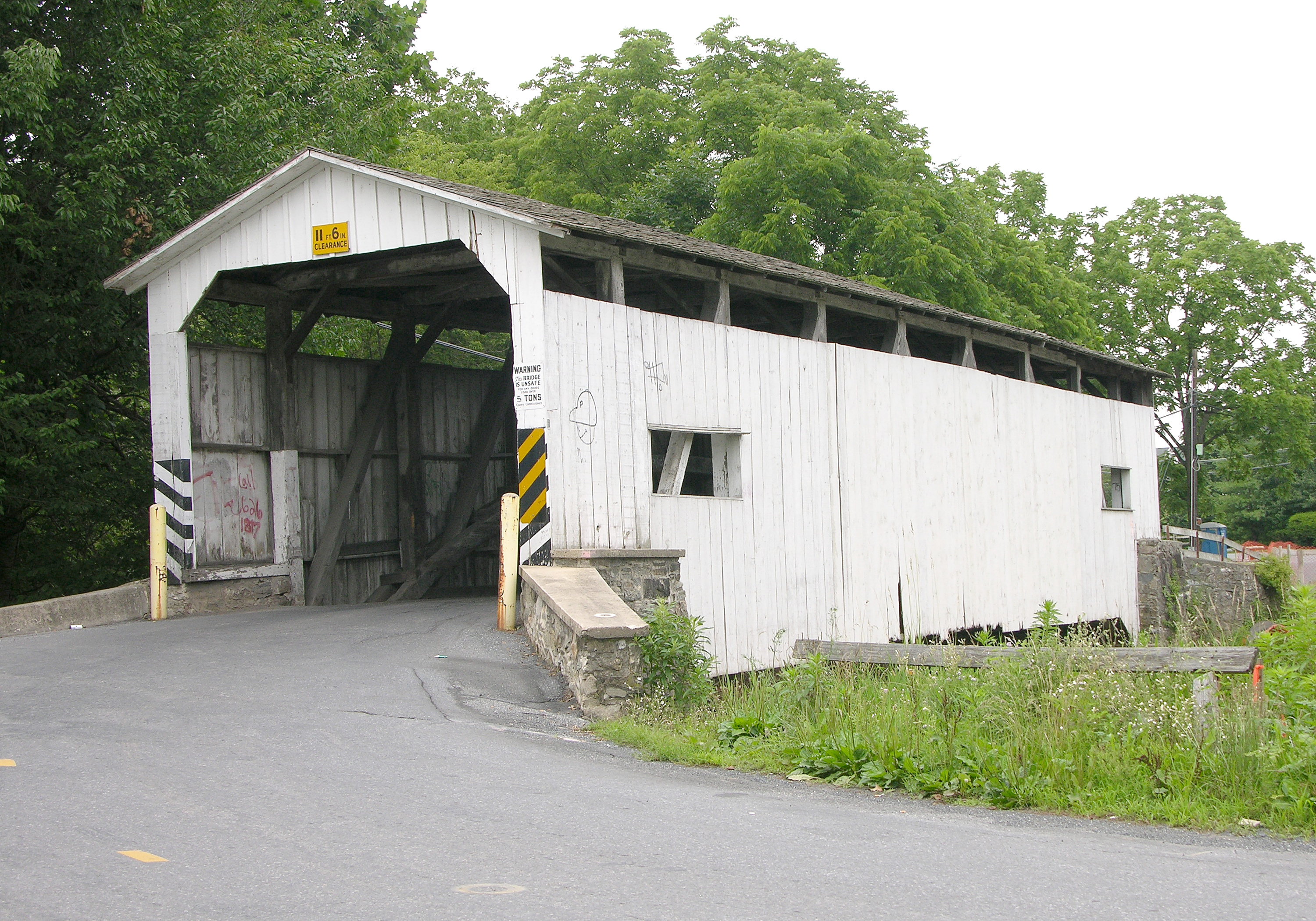 A three quarters view photograph of the Keller's Mill Covered Bridge located in Lancaster County, Pennsylvania.